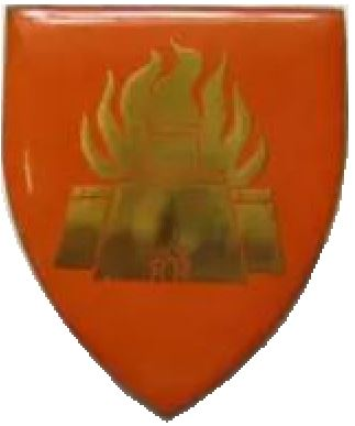 SADF era Brandfort Commando emblem